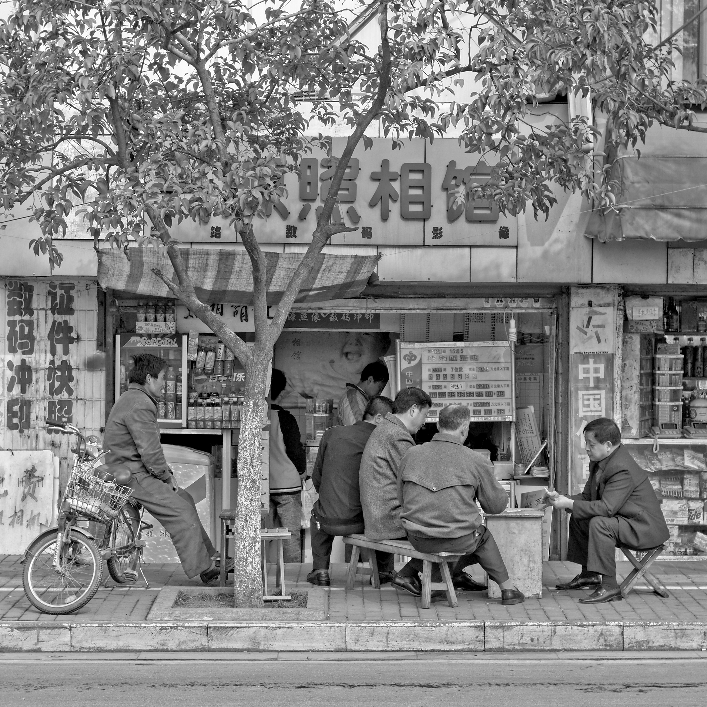 Some people are playing a card game on the street. Nanjing, China.